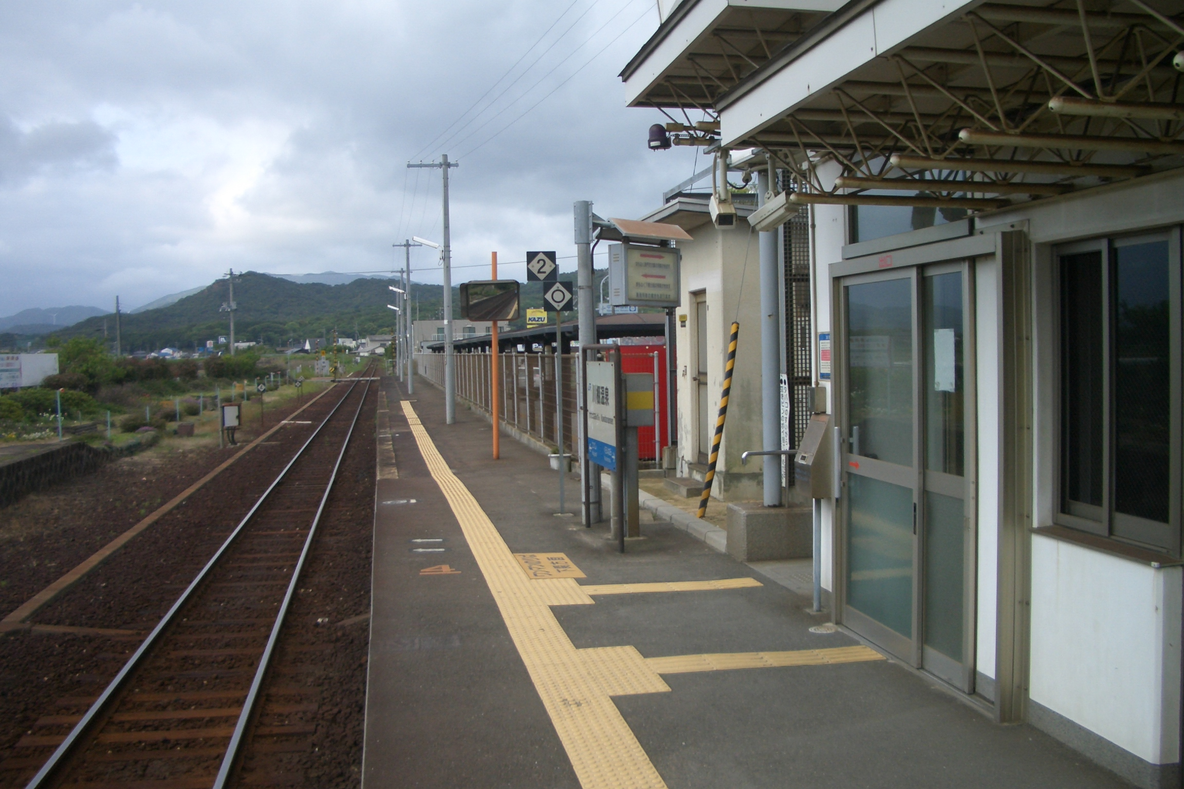 Platform of Kawatana Onsen Station, JR-West, Yamaguchi, Japan